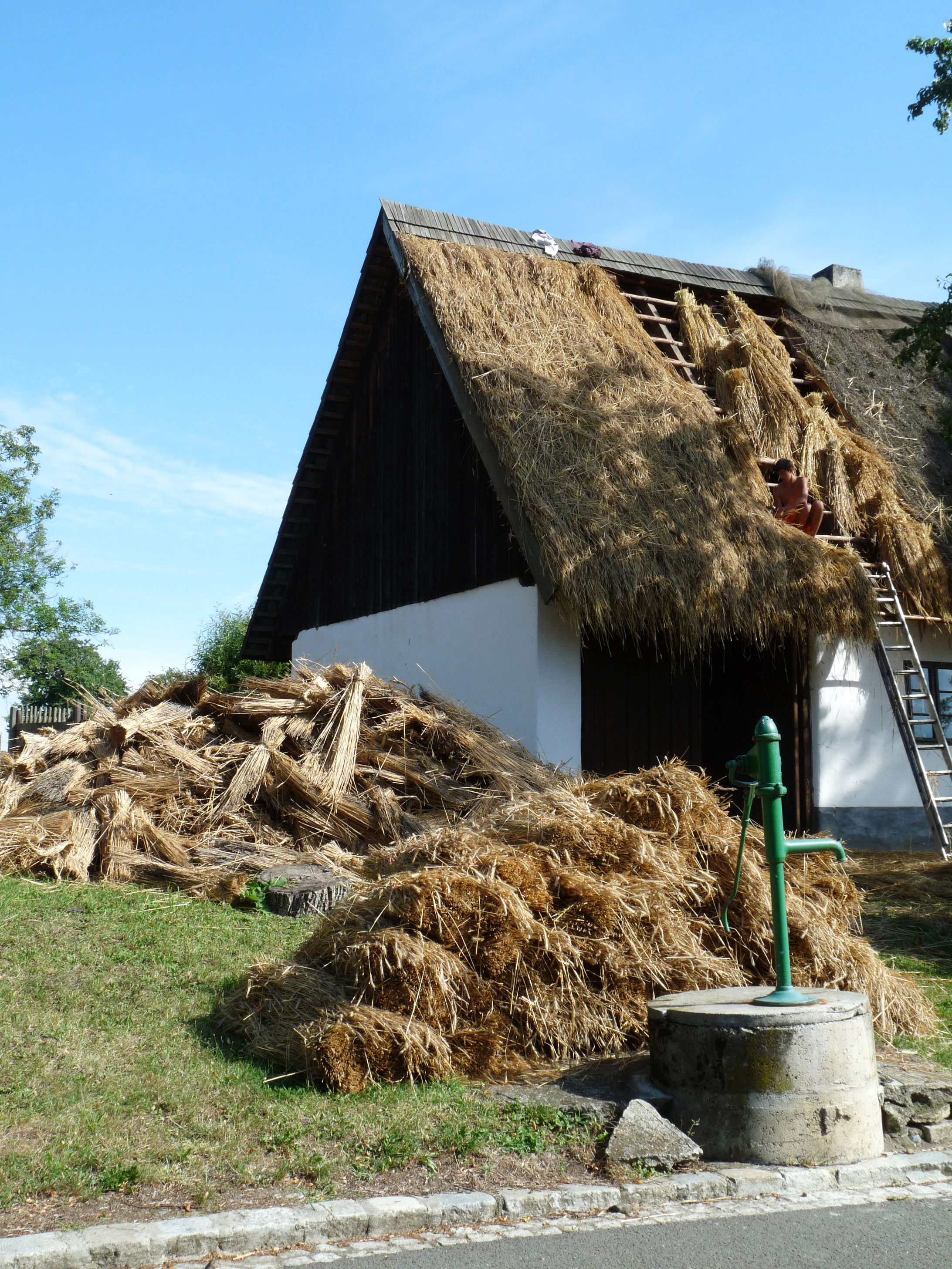 Repairs of the thatched roof of house No 64 in the municipality of Rymice, Kroměříž District, Zlín Region, Czech Republic.